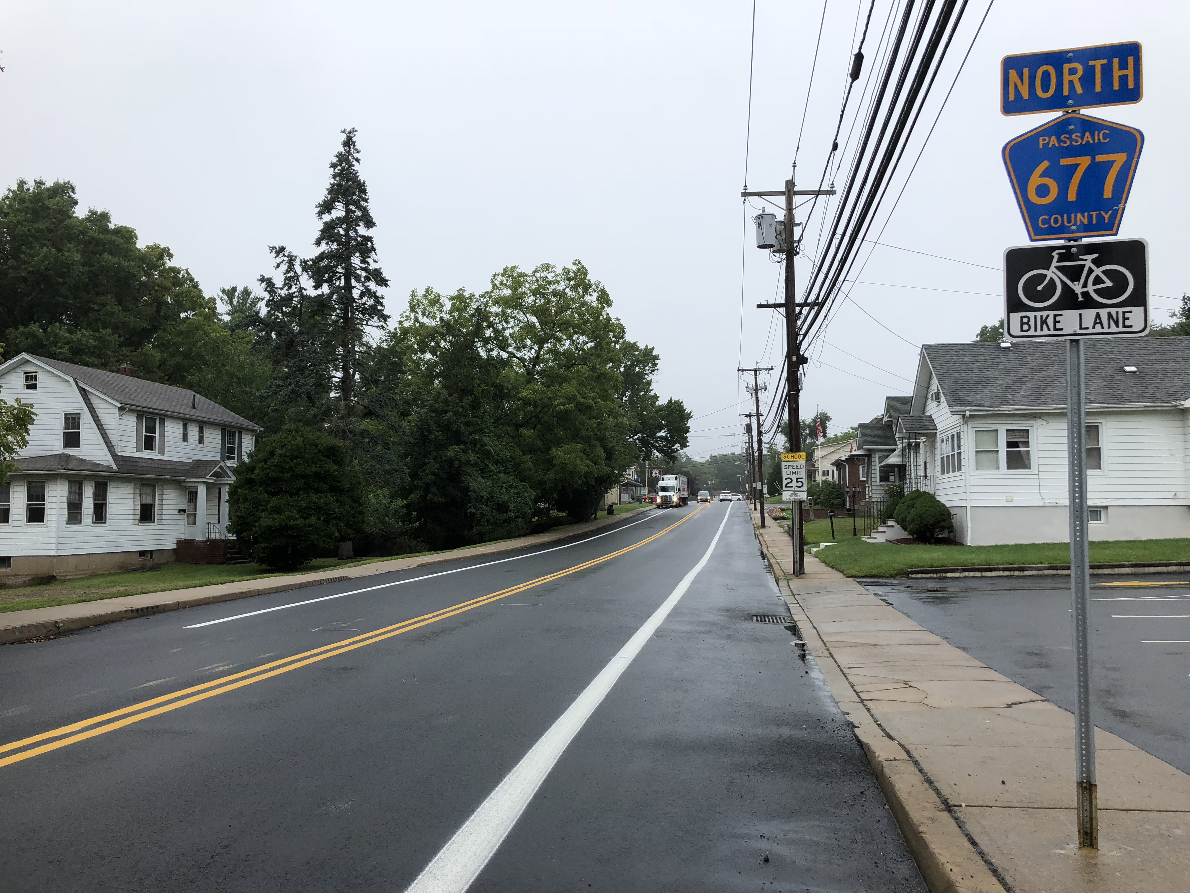 View north along Passaic County Route 677 (High Mountain Road) at Manchester Avenue in North Haledon, Passaic County, New Jersey